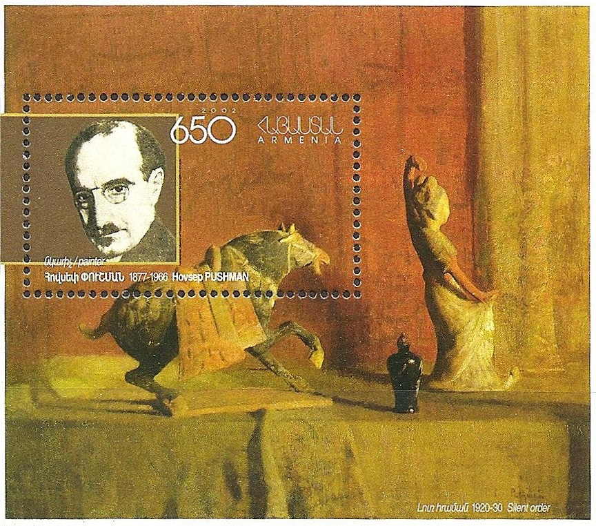 M/S19. Portrait of Hovsep Pushman on the background of the piece The Silent order